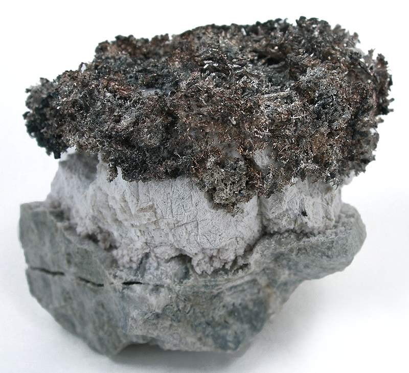 Silver Locality: Balcoll Mine, Falset, Priorat, Tarragona, Catalonia, Spain (Locality at ) Size: 4.6 x 4.3 x 2.9 cm. This particular silver specimen has been partially etched out of white calcite which in turn, has been emplaced on a light gray limestone. The silver is bright with great luster and the crystals, to .5 cm across are mostly spinel twins.